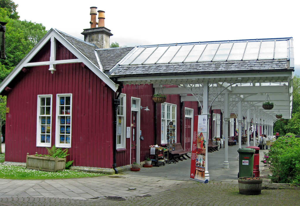 Strathpeffer Railway station in use in 2011 as a tourist information facility and retail shops